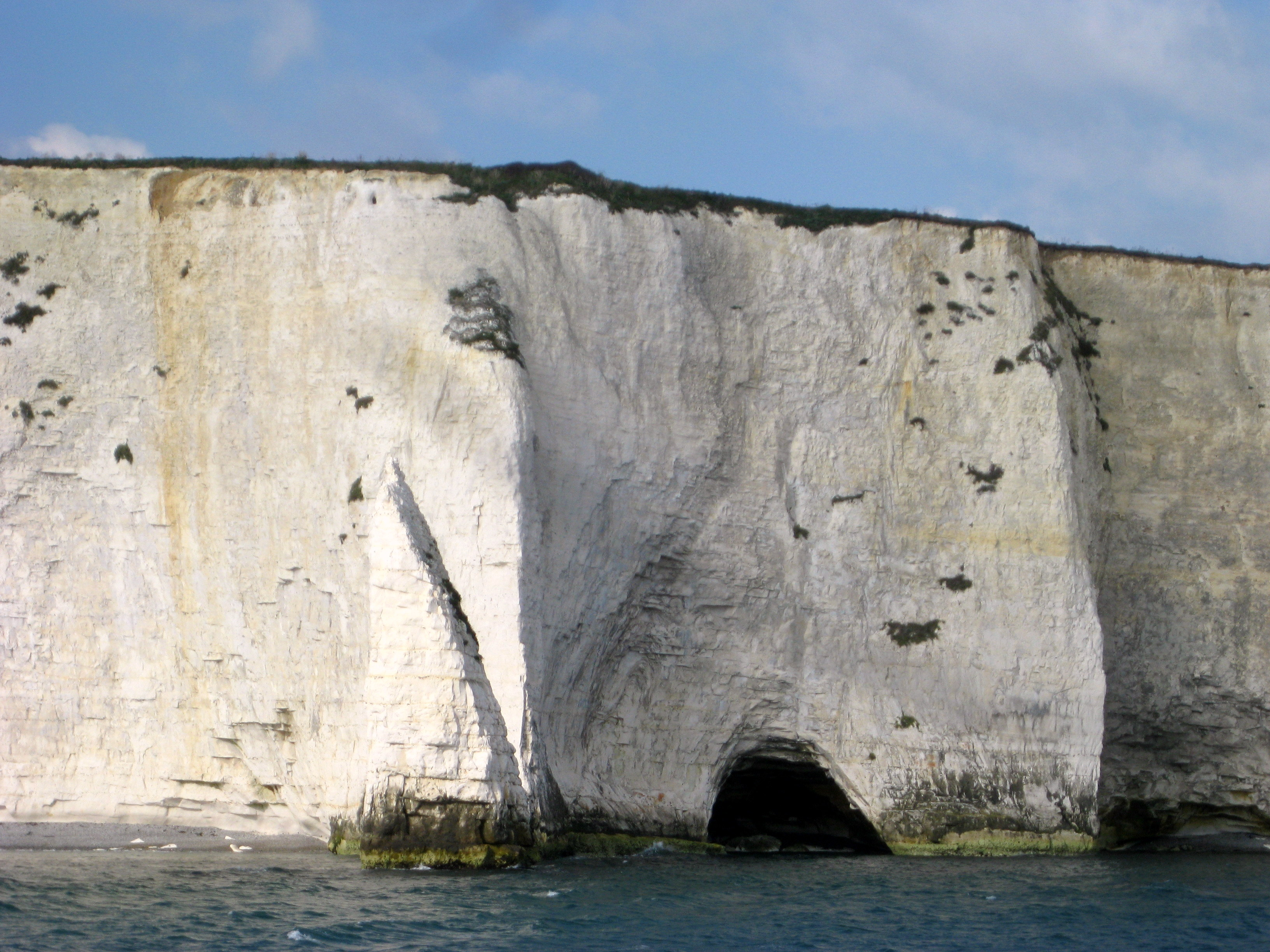 Parson’s Barn, a large sea-level cavern below the Ballard Down cliffs, between Studland and Swanage